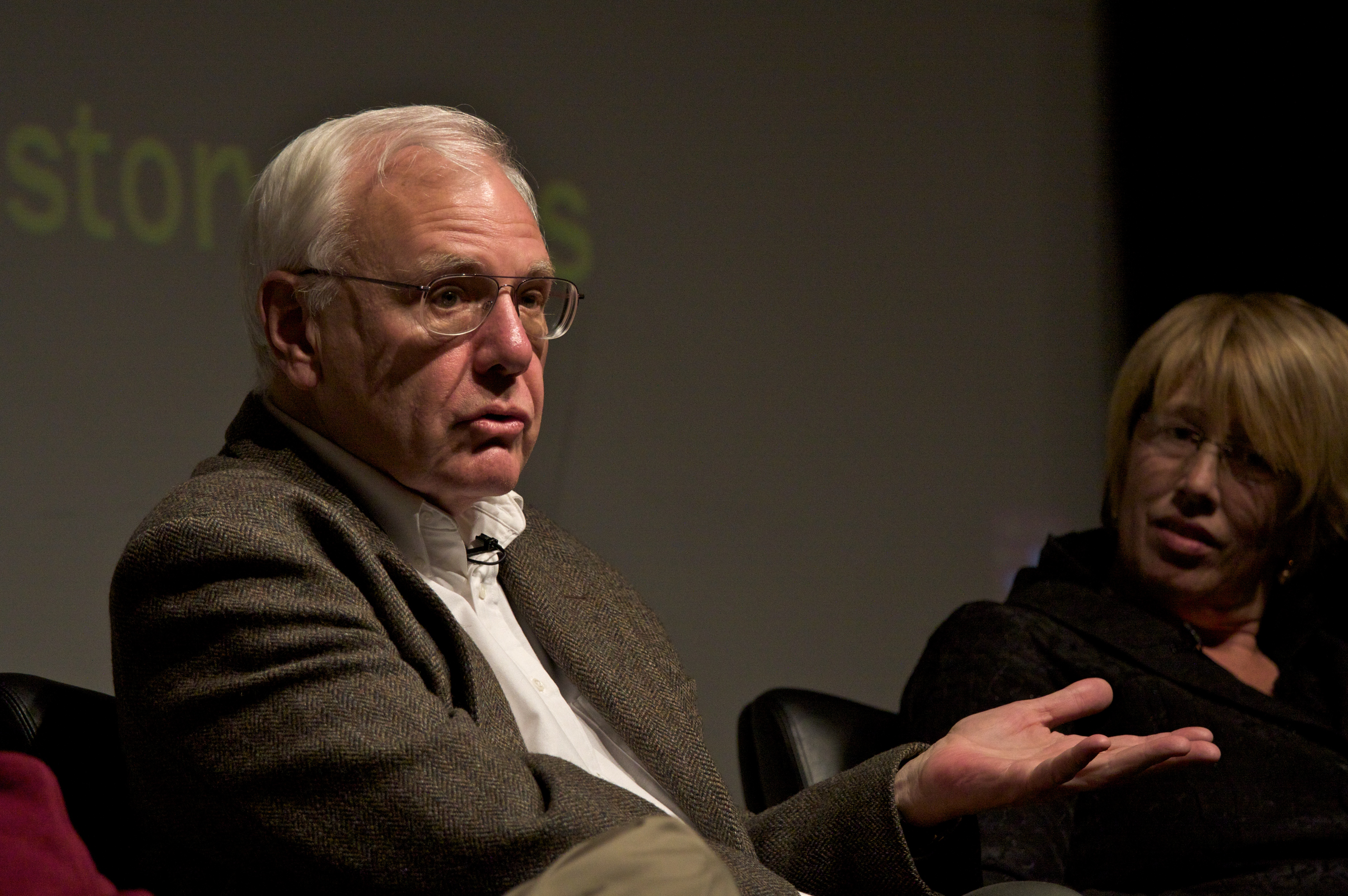 Charles (Chuck) Thacker, Mary Lou Jepsen